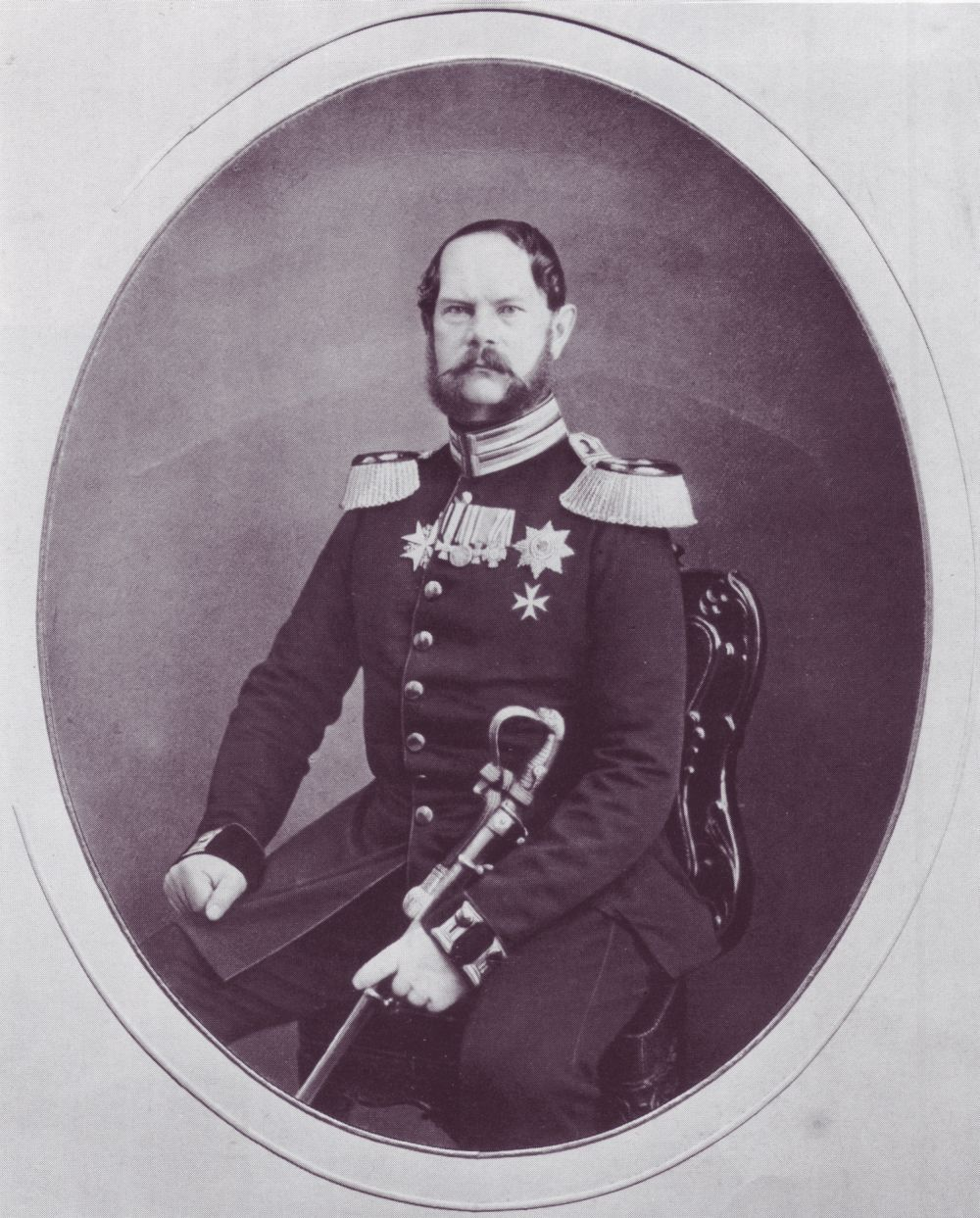 Prinz Carl von Preußen/Prince Charles of Prussia, about 1860